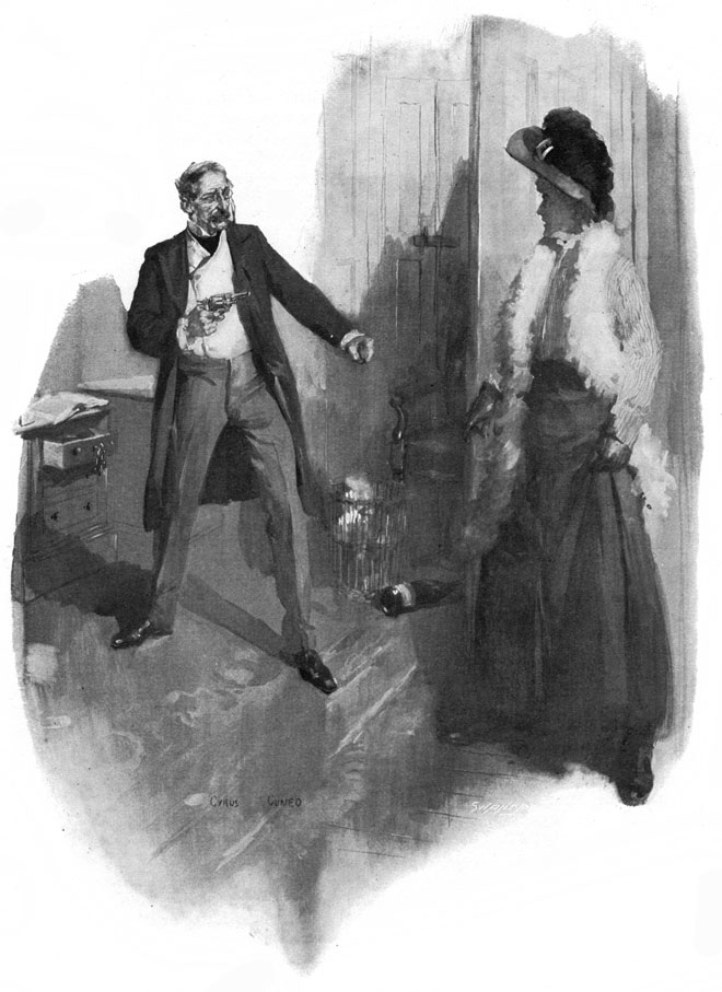 Pall Mall's illustration for E. W. Hornung's Raffles short story "The Rest Cure" by Cyrus Cuneo. This story was first published in the US in Collier’s Weekly in the February 25, 1905 issue, and in the March 1905 issue of Pall Mall Magazine in the UK.